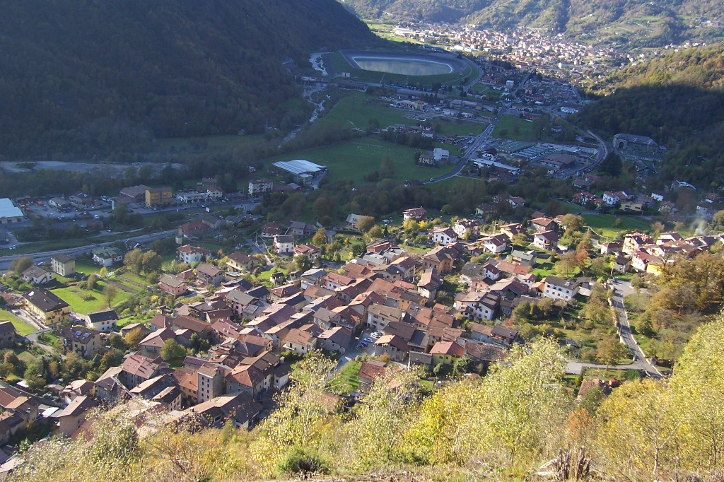 Sonico, Val Camonica